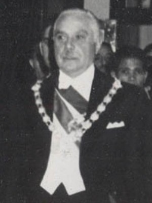 Rafael Trujillo of the Dominican Republic, during an official visit to Ciudad Trujillo (Santo Domingo) of President Anastasio Somoza Garcia of Nicaragua for the August 1952 inauguration of Hector Trujillo as figurehead president of the Dominican Republic.